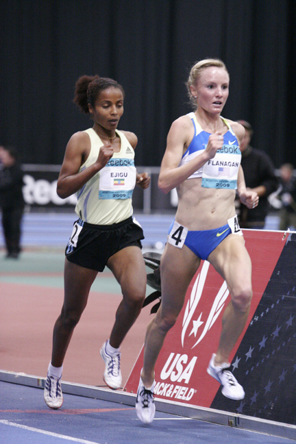 Local favorite Shalane Flanagan loses the women's 5,000 by five-thousandths of a second to Ethiopian Sentayehu Ejigu but sets a new American Record with her 14:47.618 at the 2009 Boston Indoor Games.